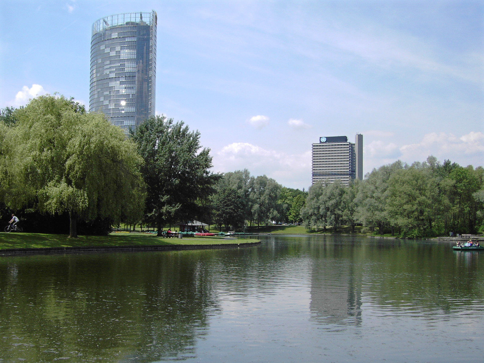 Post Tower (left) and Langer Eugen (right) seen from Rheinaue park